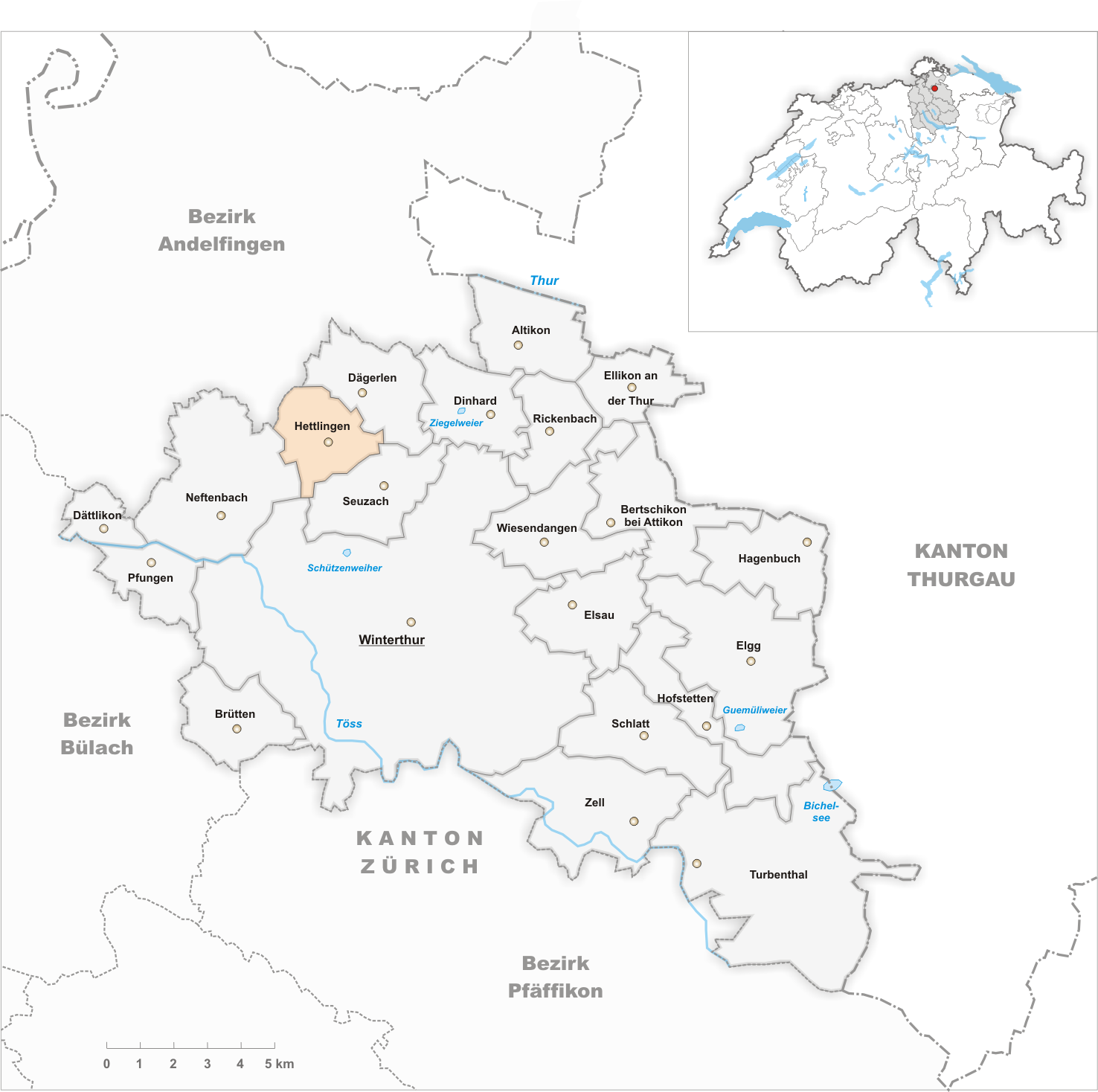 Municipality Hettlingen